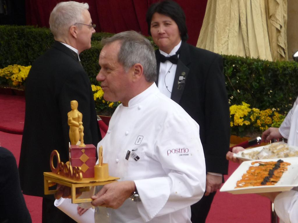 Chef Wolfgang Puck at 81st Annual Academy Awards.